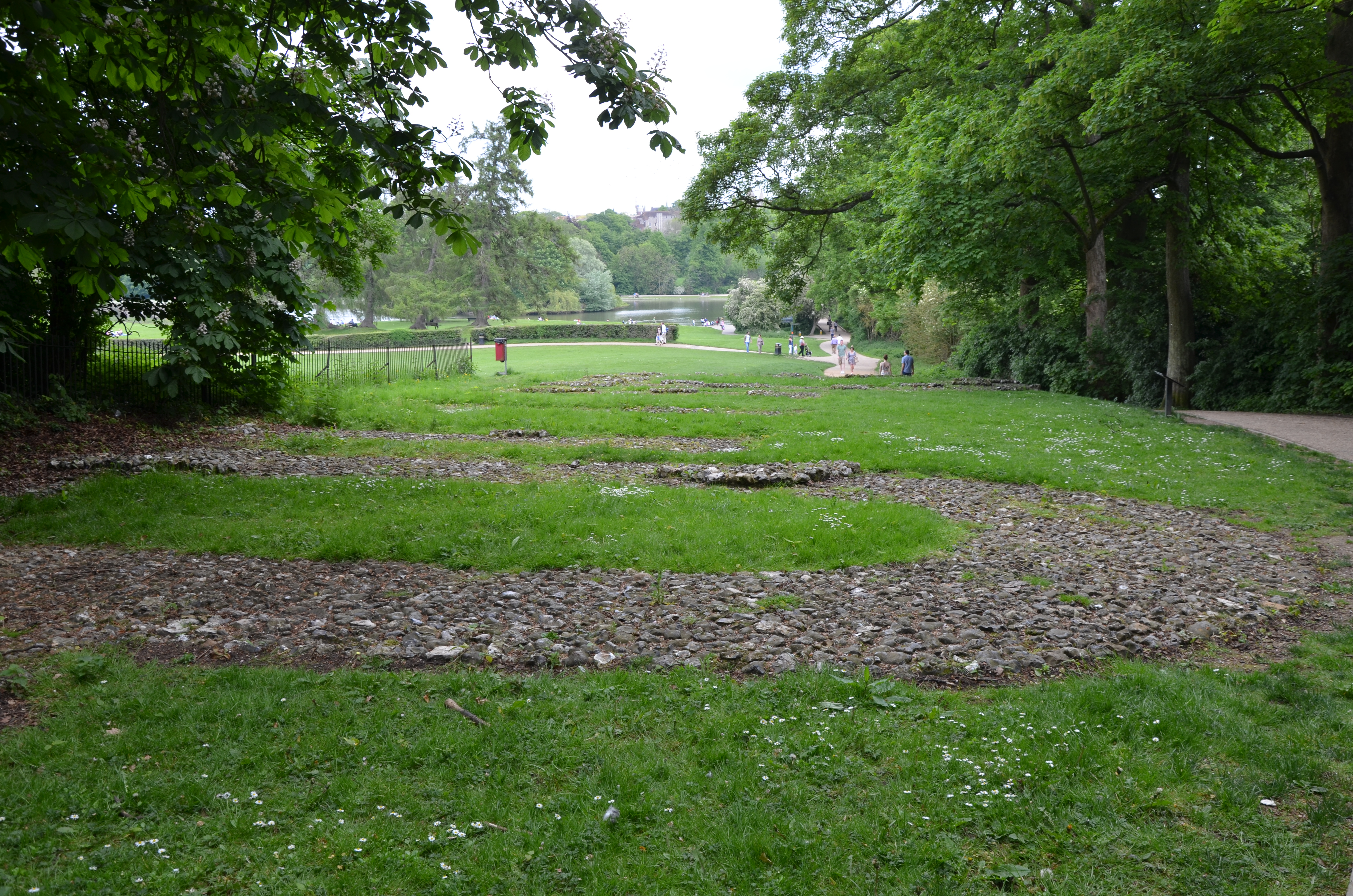 Surviving foundations of the London Gate, Verulamium, St Albans